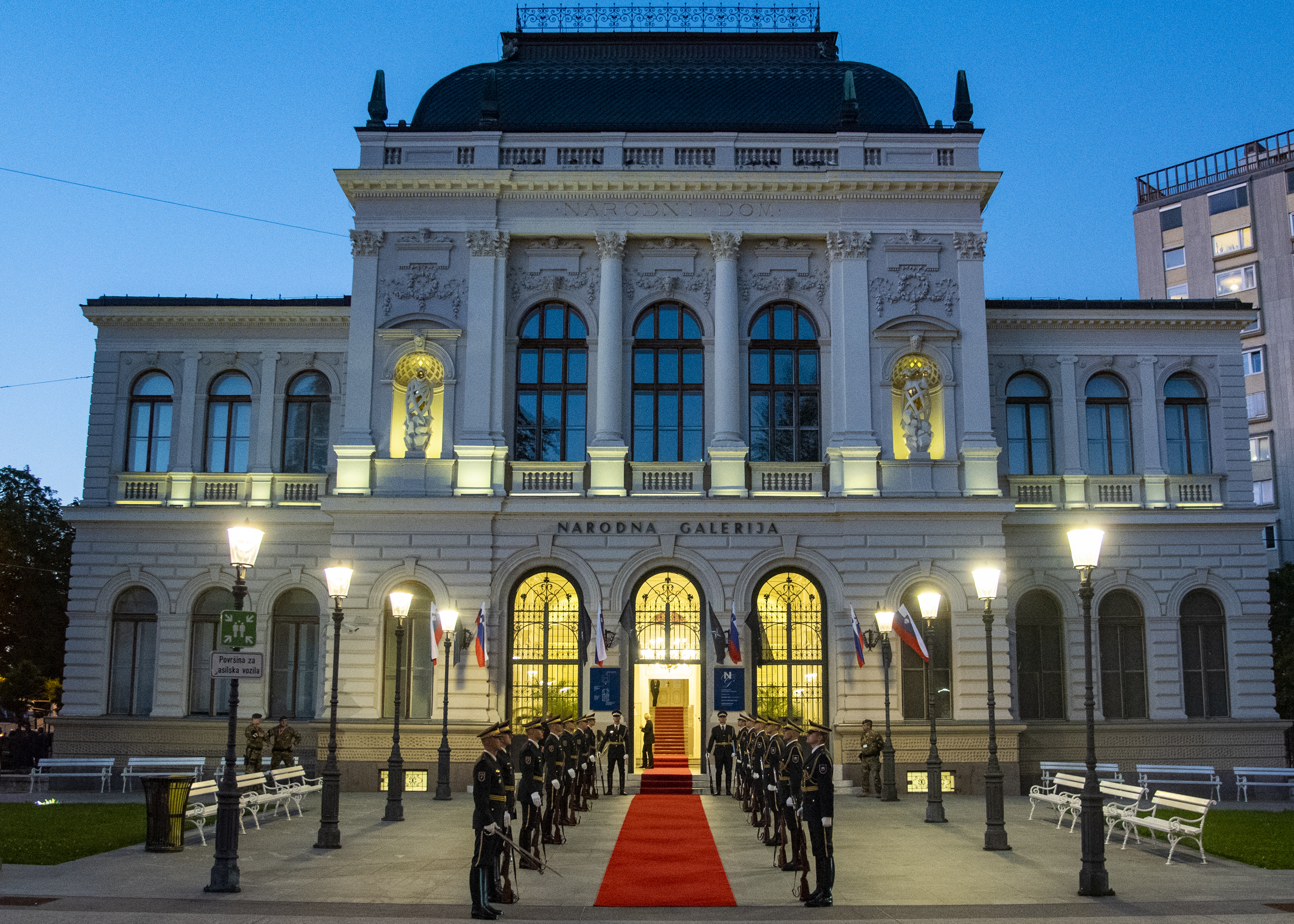 Members of the Slovenian Armed Forces wait for President of the Republic of Slovenia to depart following the opening ceremony of the North Atlantic Treaty Organization Military Committee Conference at the National Gallery in Ljubljana, Slovenia, Sept. 13, 2019. (DOD photo by U.S. Navy Petty Officer 1st Class Dominique A. Pineiro)